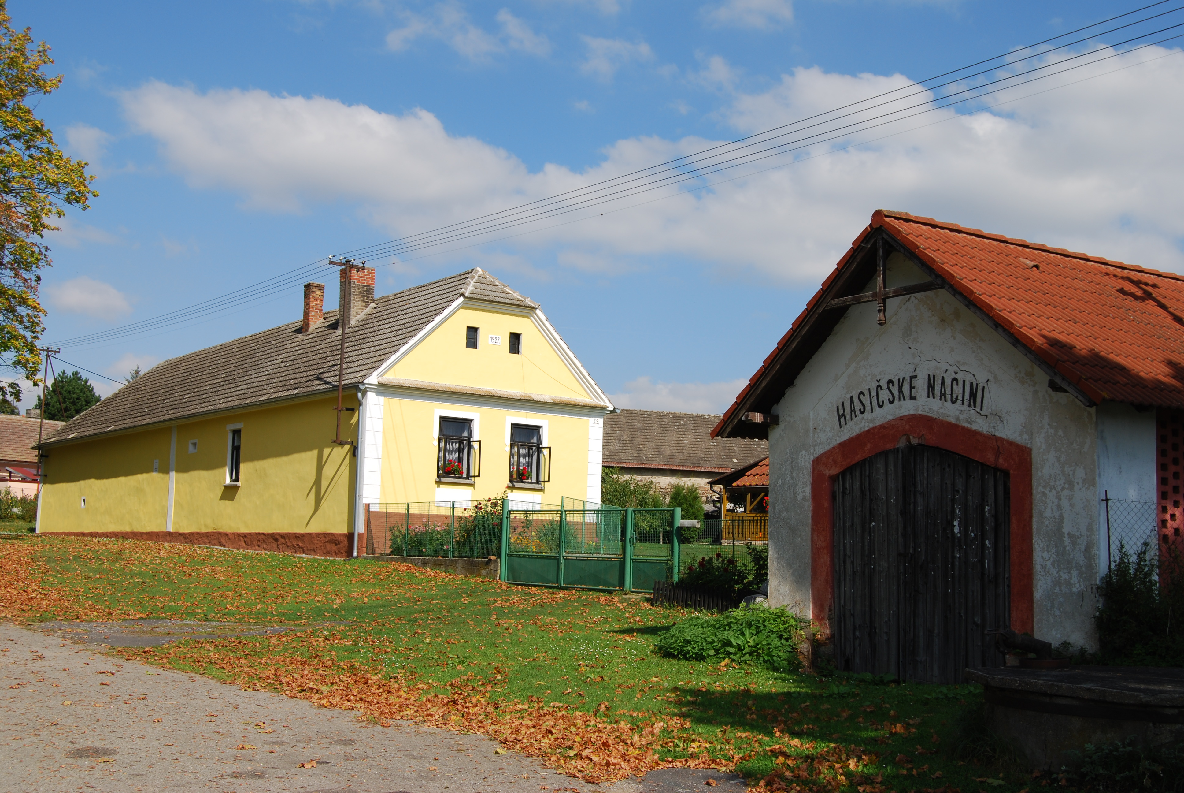 Myštice village in Strakonice District, Czech Republic.